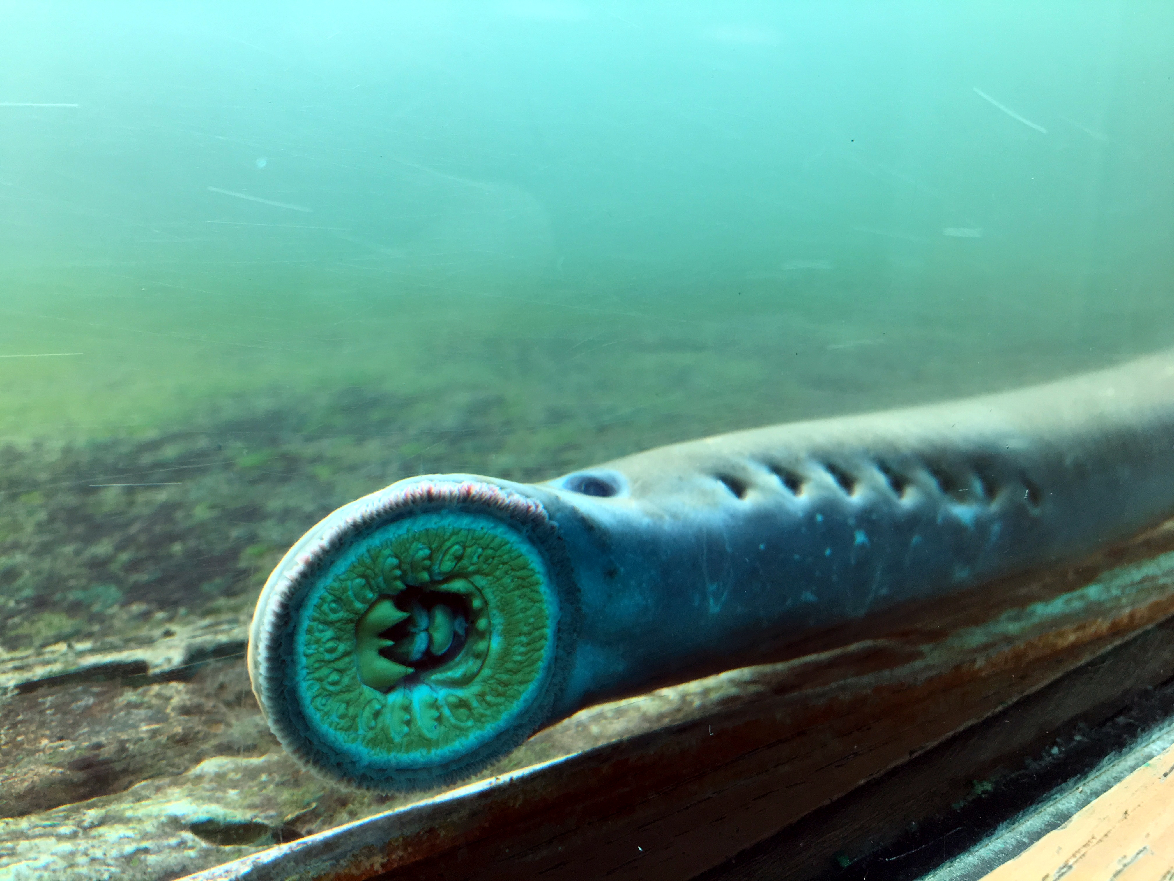 Pacific lamprey (Entosphenus tridentatus) in the fish ladder at the Bonneville Dam